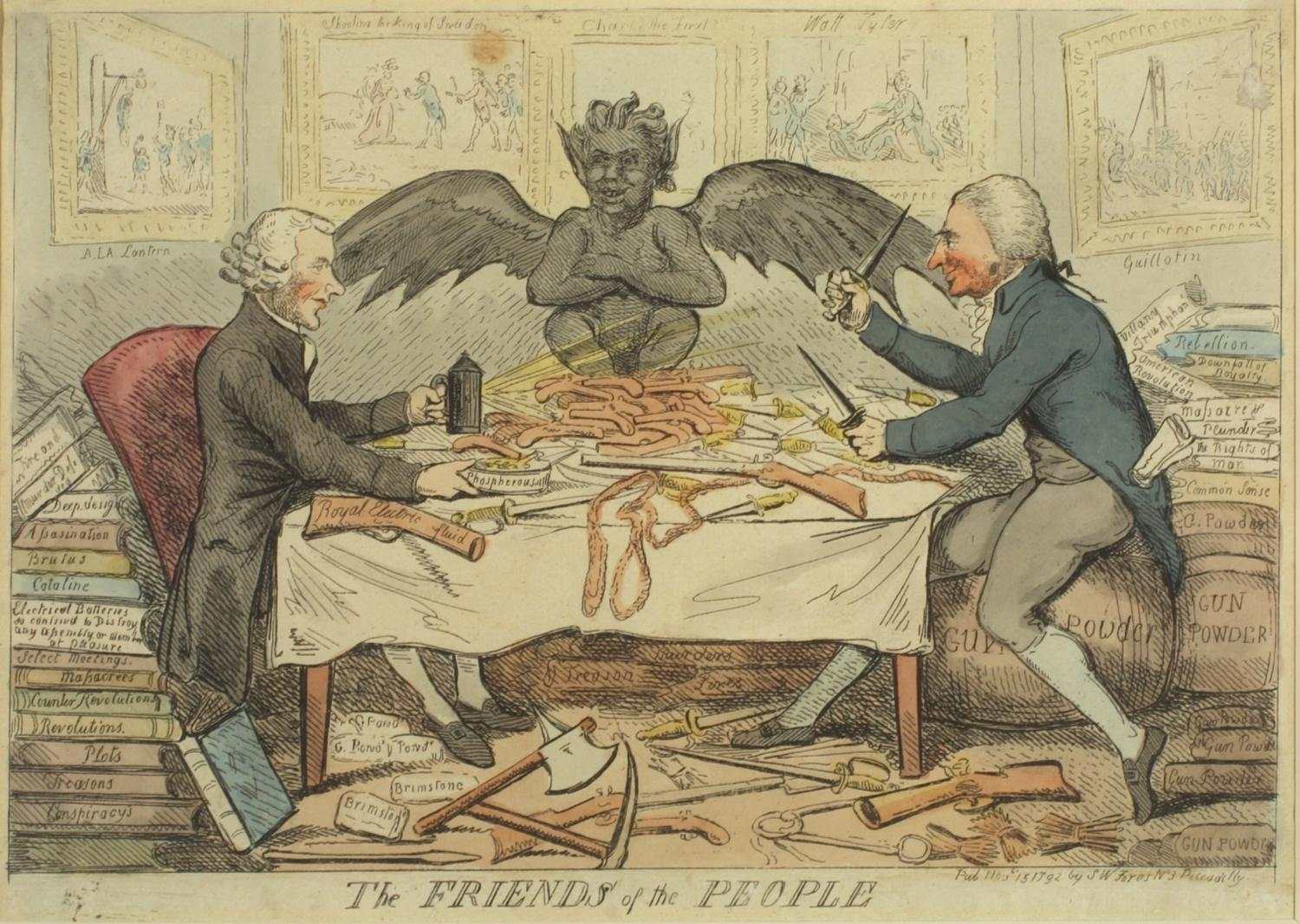 "The Friends of the People", Isaac Cruikshank (1764–1811), Scottish painter and caricaturist, London, 15 November 1792, hand-colored etching, published by S. W. Fores, No. 3 Piccadilly. In his time, Priestley’s scientific contributions were overshadowed by his Unitarian beliefs and somewhat radical views on reforming society. Here Joseph Priestley is seen seated at a table with Thomas Paine, radical supporter of the American and French revolutions, surrounded by incendiary items: guns, knives, a dish says phosphorous, a gun butt says “Royal Electric fluid.” A winged putto grins at them while squatting on the table. Thomas Paine sits upon kegs of gunpowder. Books on treason, murders, assassination, revolution, etc. surround them. At Priestley’s feet are packages of brimstone, axe, and pickax. On the walls are scenes of execution and assassinations.